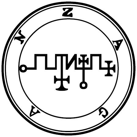 Zagan seal, THE BOOK OF THE GOETIA OF SOLOMON THE KING (1904)